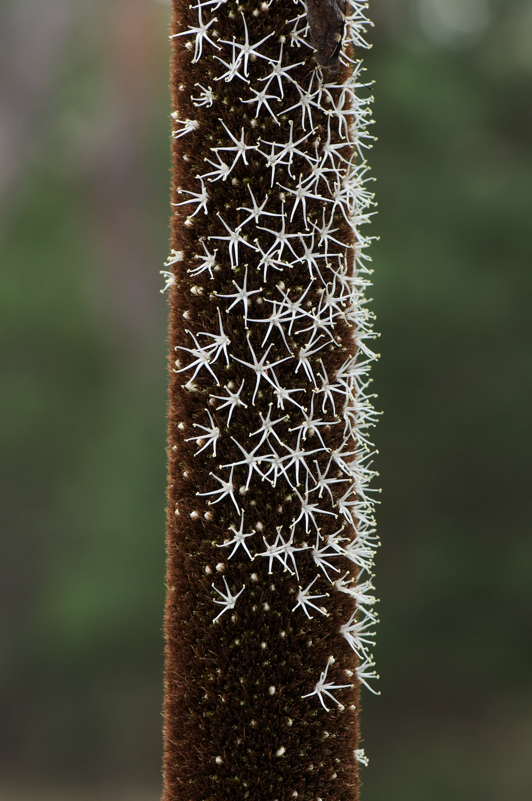 Xanthorrhoea australis photographed in The Grampians, western Victoria State, Australia